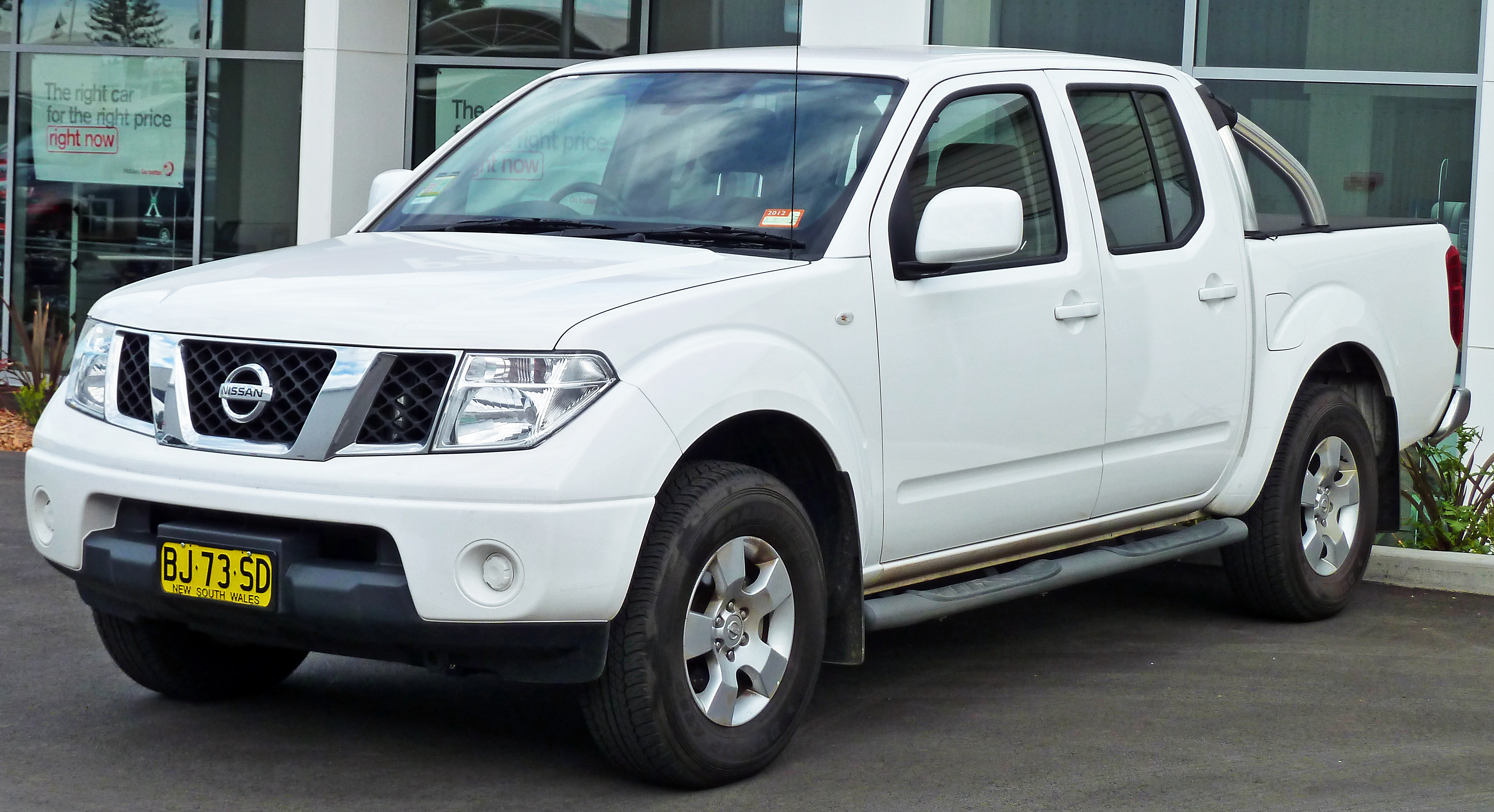 2010 Nissan Navara (D40) ST 4-door utility. Photographed in Kirrawee, New South Wales, Australia.